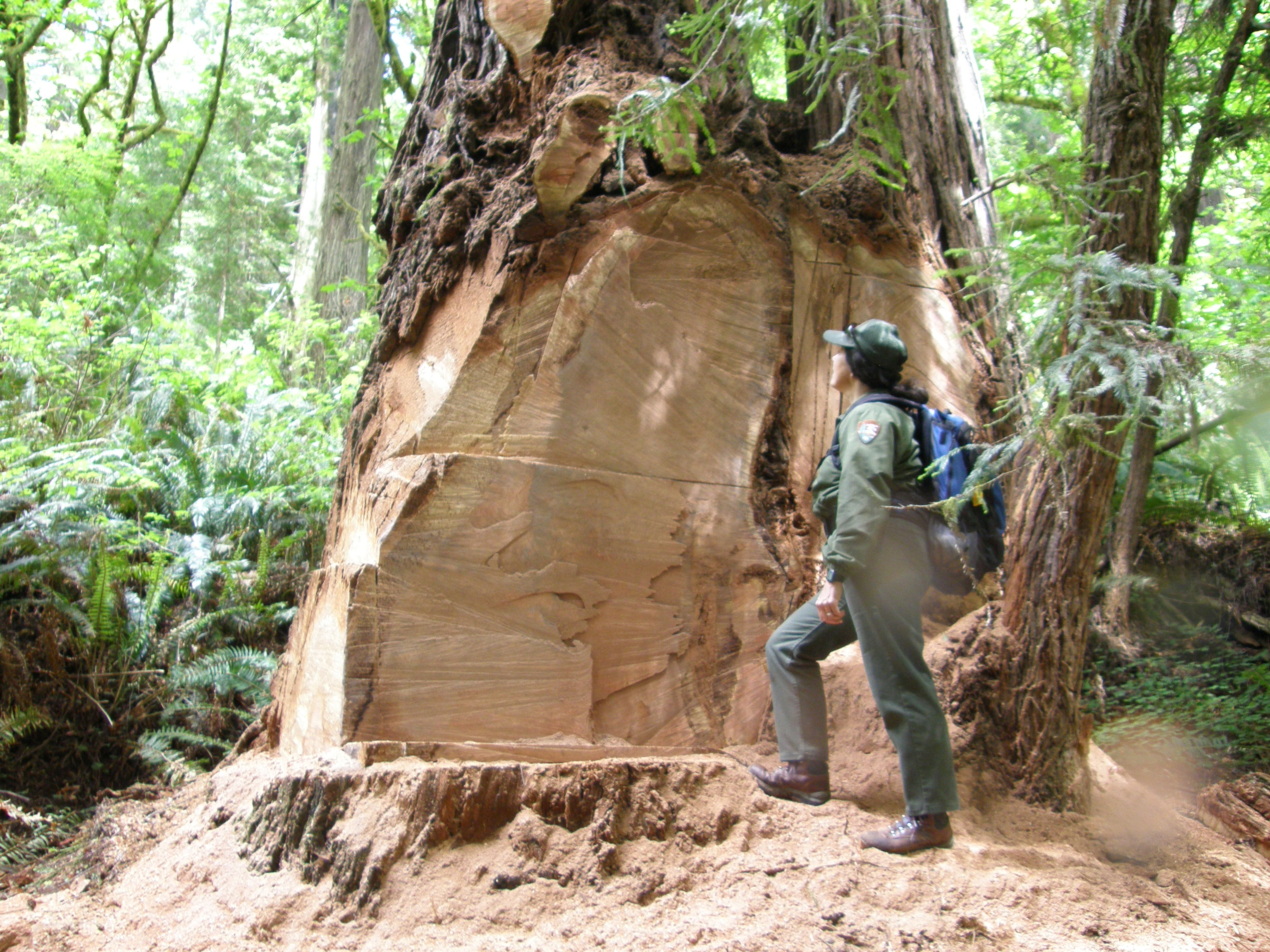 Redwood National Park, California, USA: A park ranger inspects a redwood tree, that has been vandalized to steal a "burl". Burls are knots in the wood where young sprouts grow out of the stem. They are the base for decorative carvings and increasingly stolen from protected redwood forests.